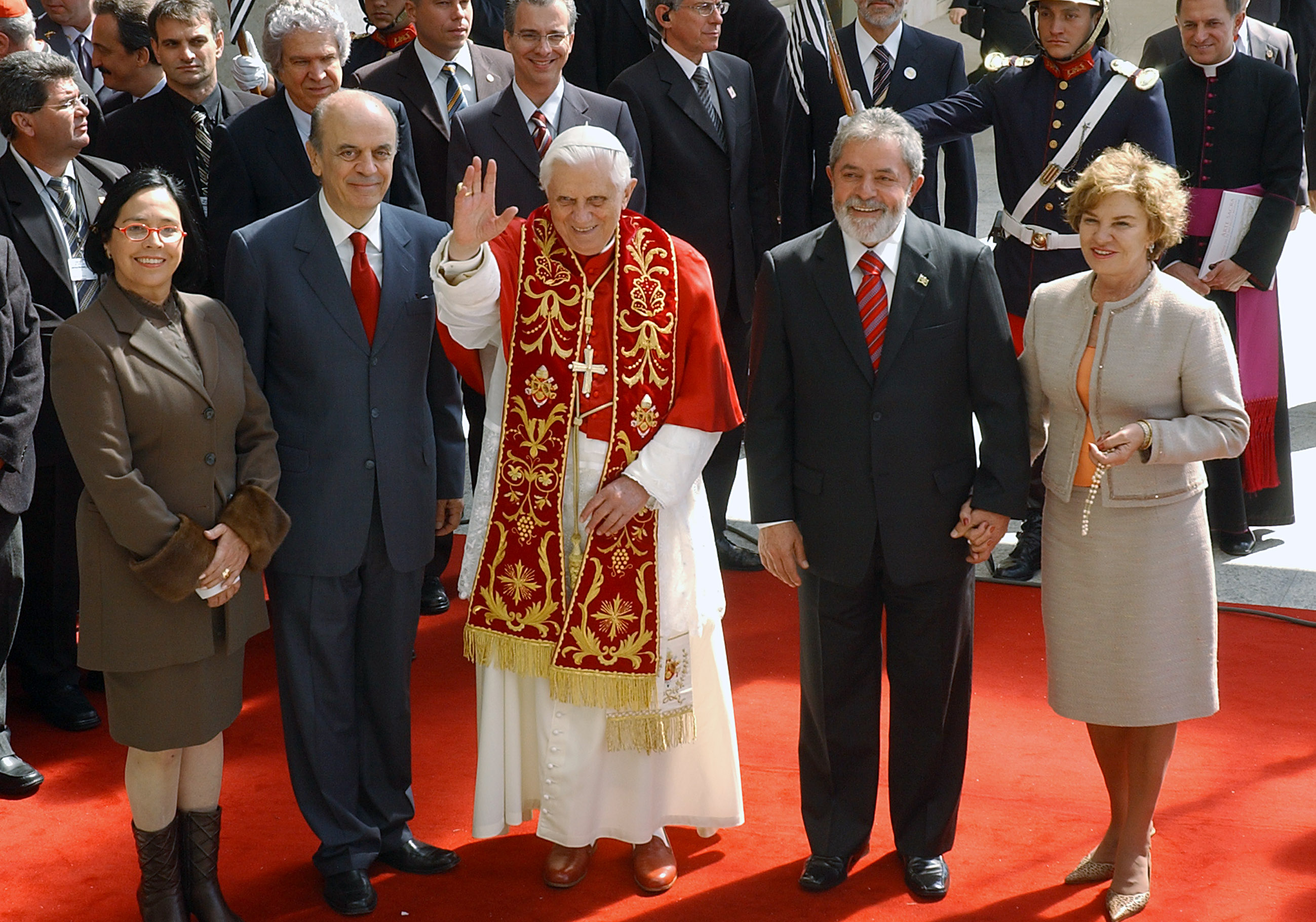 Pope Benedict XVI arrives at the Palácio dos Bandeirantes, official residence of the governor of the state of São Paulo.